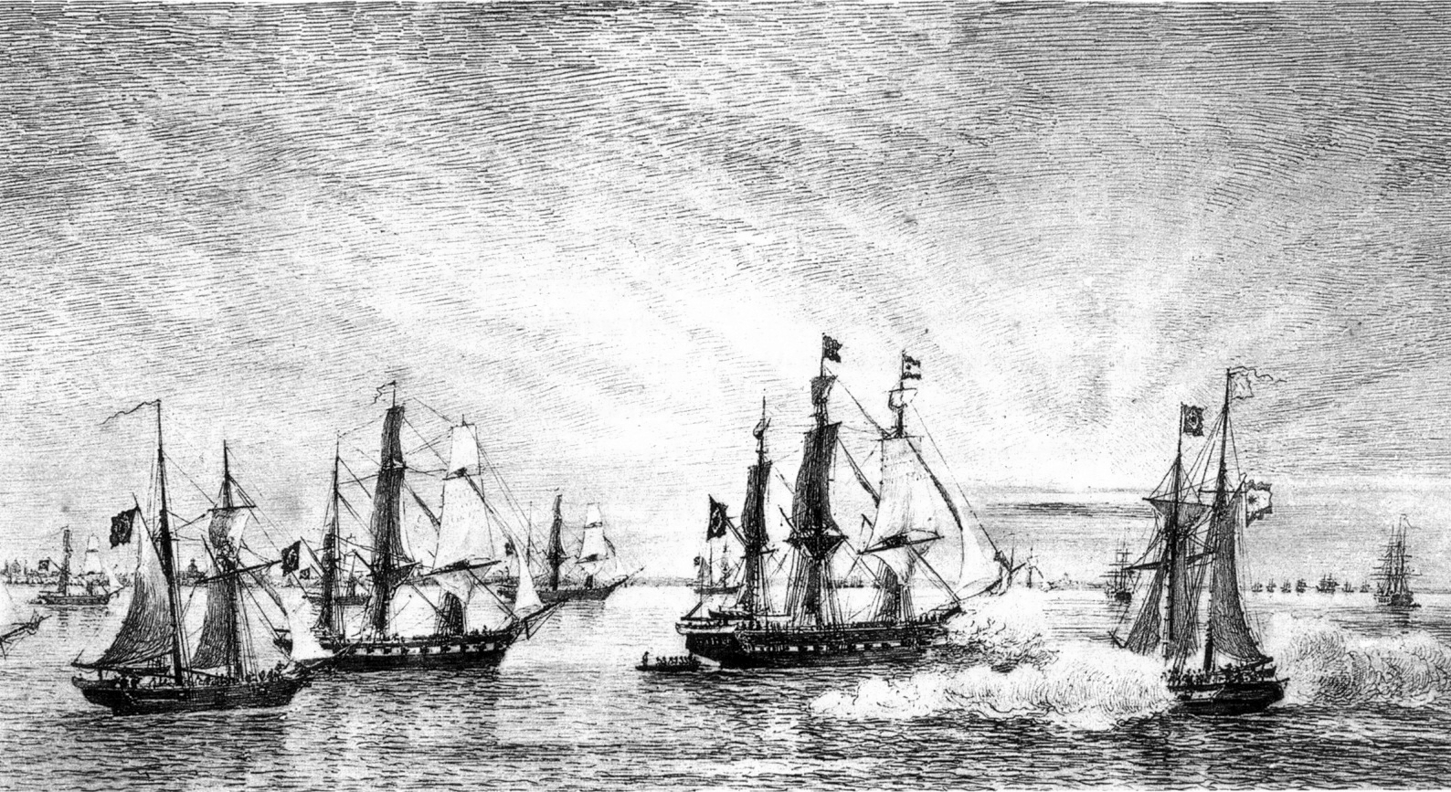 The Brazilian fleet blockading Buenos Aires celebrates the end of the Cisplatine War in 1828. Lithography made by Roullet by request of the future Baron of RIo Branco